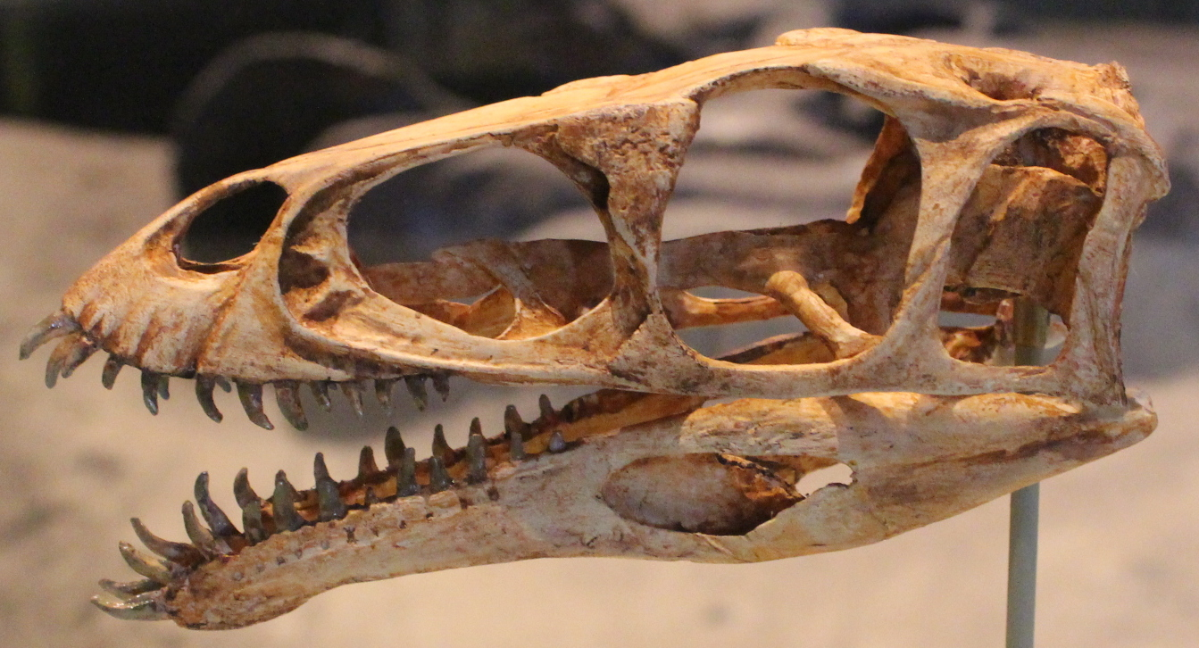 Masiakasaurus skull at FMNH